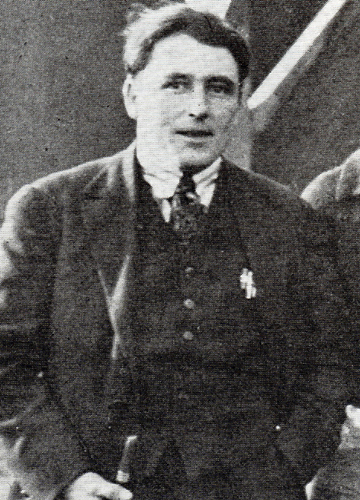 Isidore Odorico in 1925